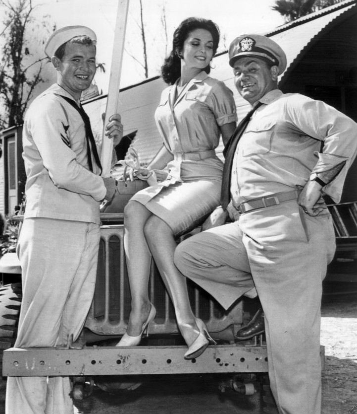 Photo of Gary Vinson as Christy, guest star Lisa Seagram and Ernest Borgnine as McHale in a scene from the television program McHale's Navy. The episode is "Is There a Doctor in the Hut?"